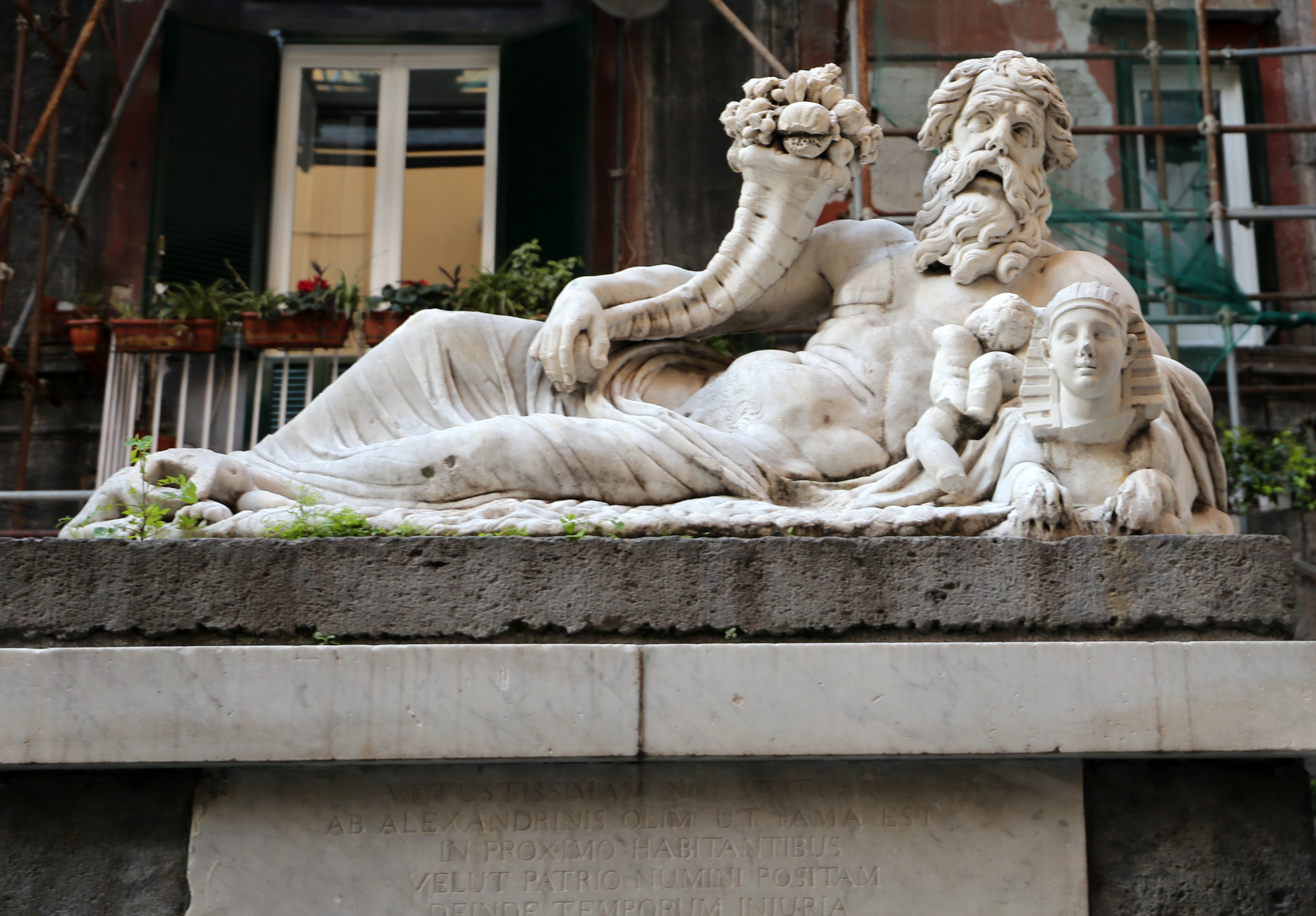 Naples, city center